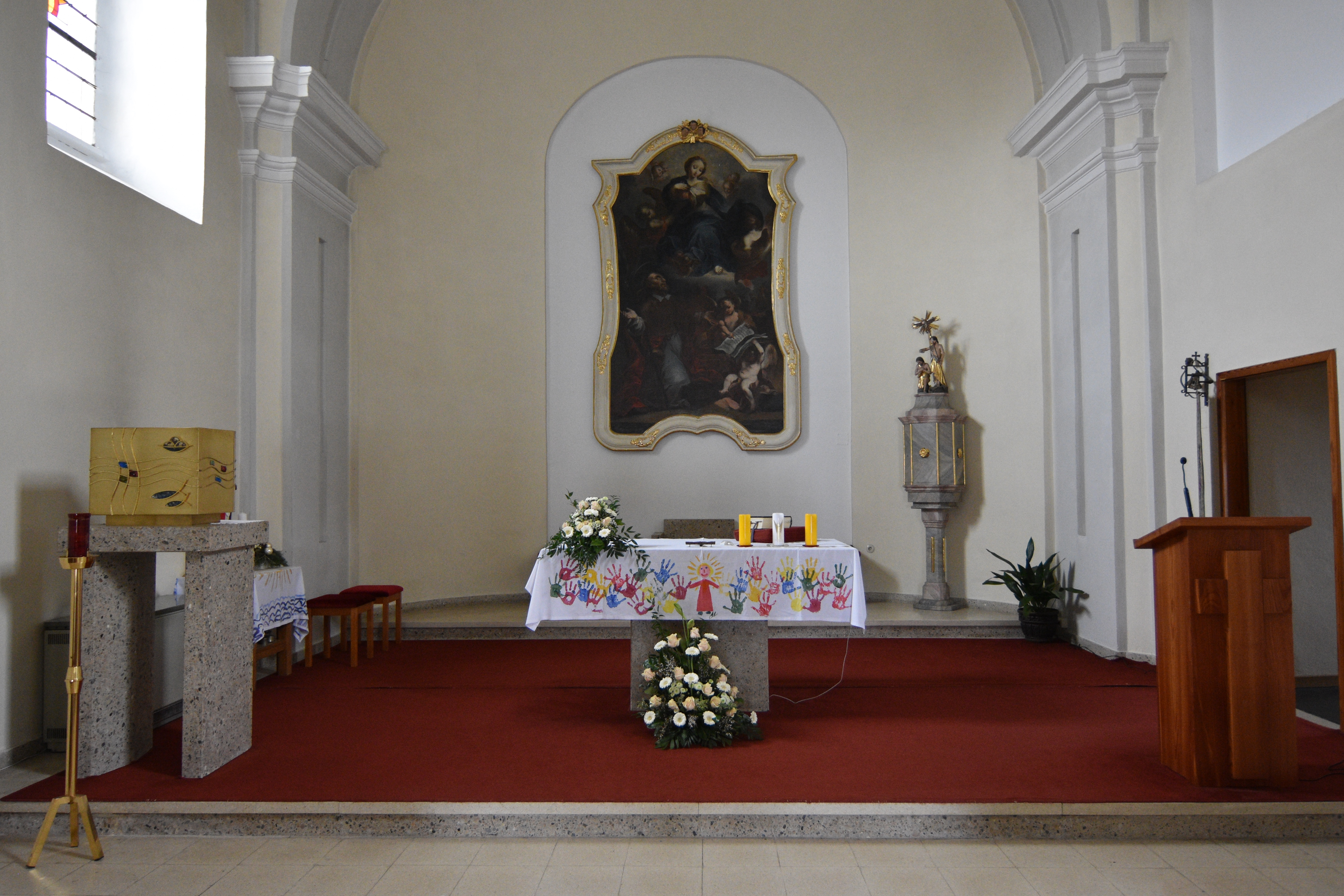 Church Bocksdorf - Interior